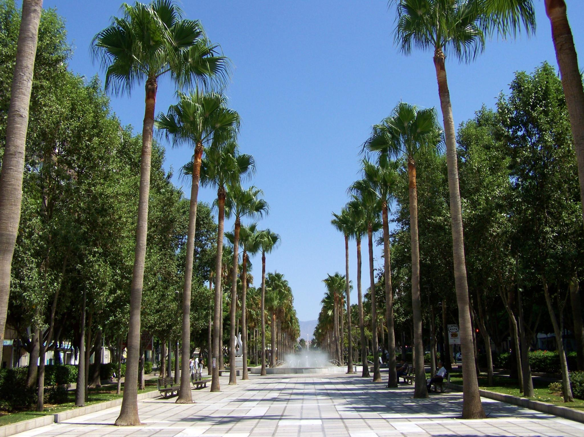 Rambla, Almería, Spain.